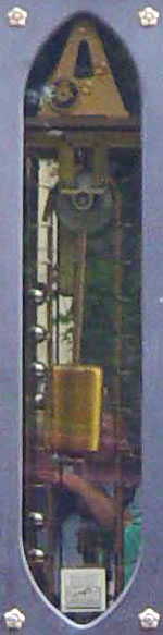 Descending steel balls power the pendulum clock mechanism of this steam clock. Image taken and uploaded by User:Leonard G..